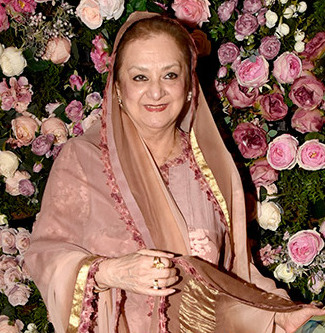 Saira Banu at Kresha Bajaj's Store Launch